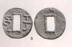 An illustration of a cash coin produced by Kingdom of Khotan from "Stein, A. (1907) Ancient Khotan, Oxford, Clarendon Press.".